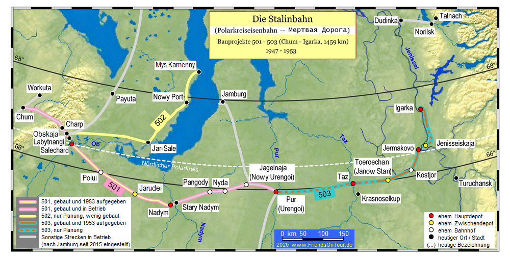 The map shows the implementation of the Soviet railway construction projects No 501 to 503. Additional are shown all railways lines that were planned or implemented before or after the No 501-503 lines.